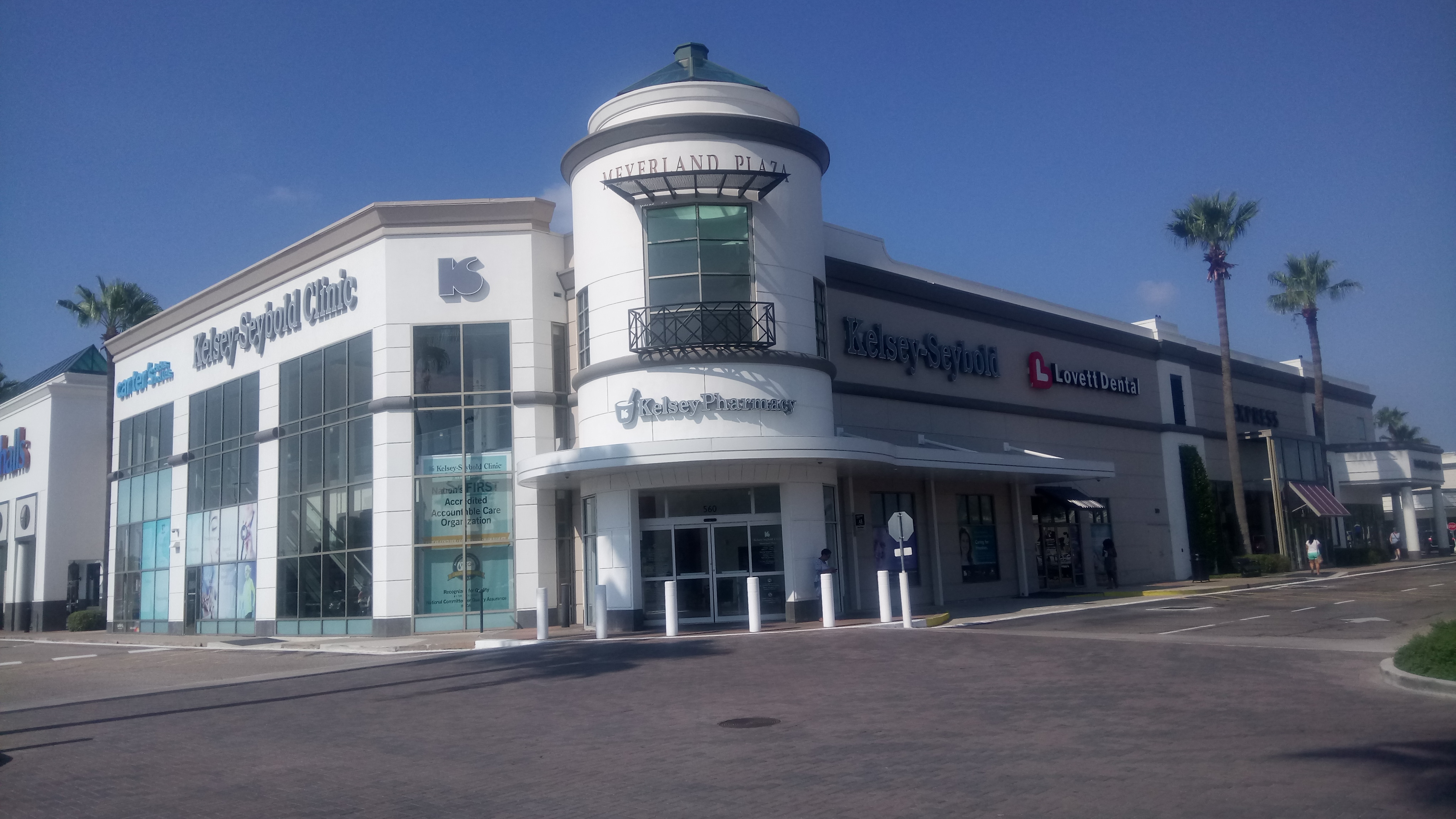 Kelsey Seybold Meyerland, Carter's, and Lovett Dental